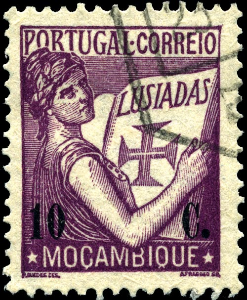 Mozambique 10c stamp of 1933